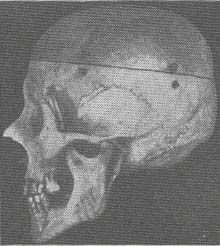 Fig 79: "Dinaric skull with especially marked Dinaric nose, and especially steep back to the head"